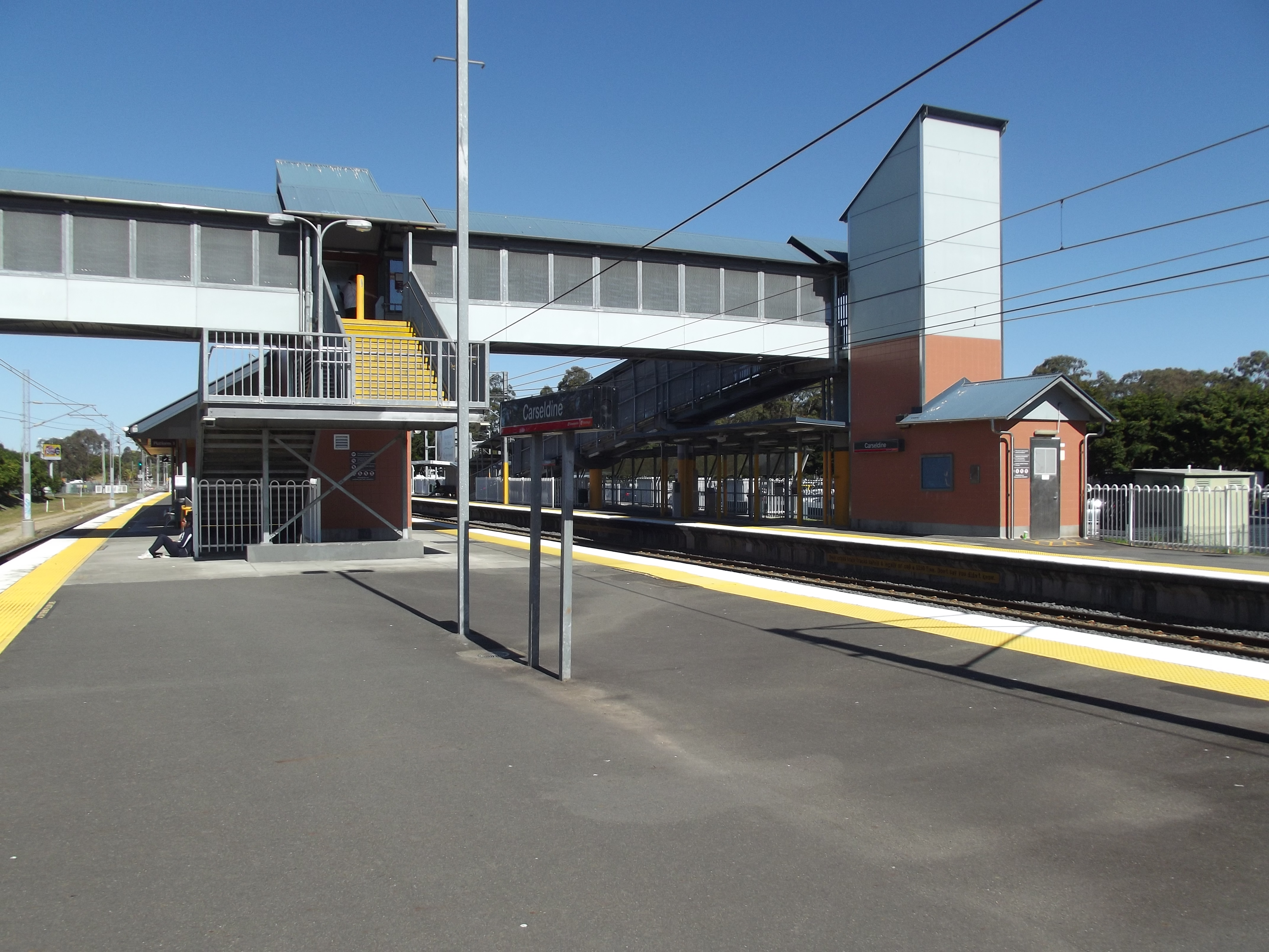 Carseldine station, on the Caboolture line.